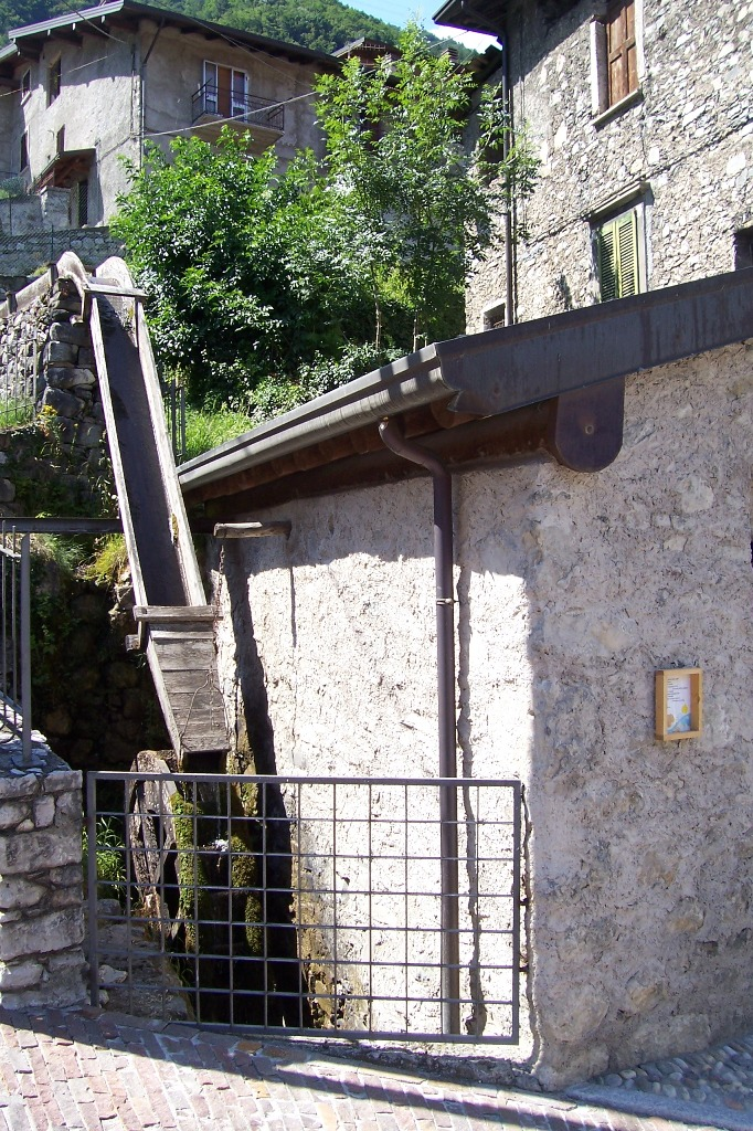 Mulino, Cerveno, Val Camonica